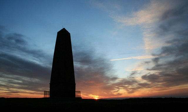 Capt. Cooks Monument, Winter Sunset